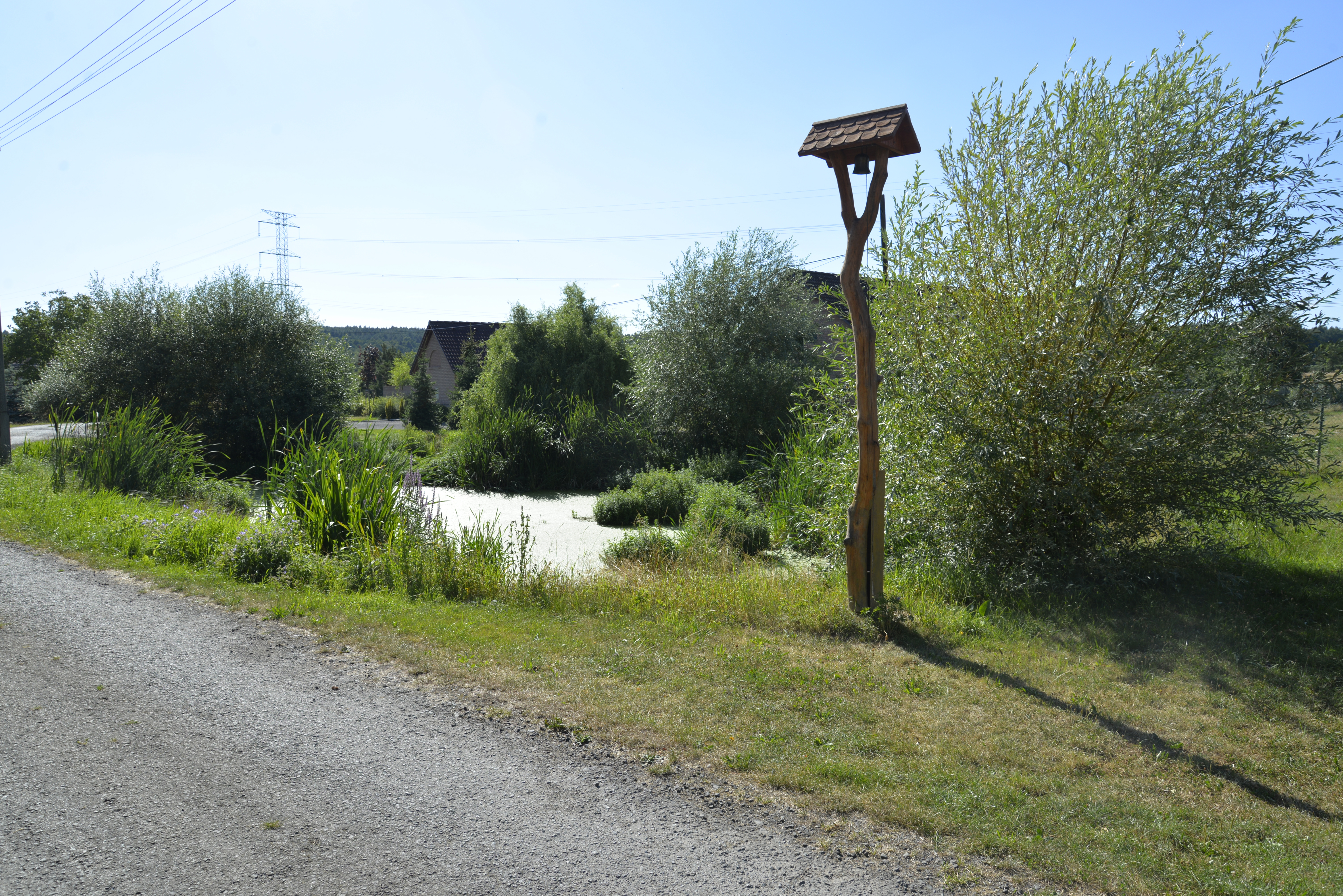 Čihátka, belly